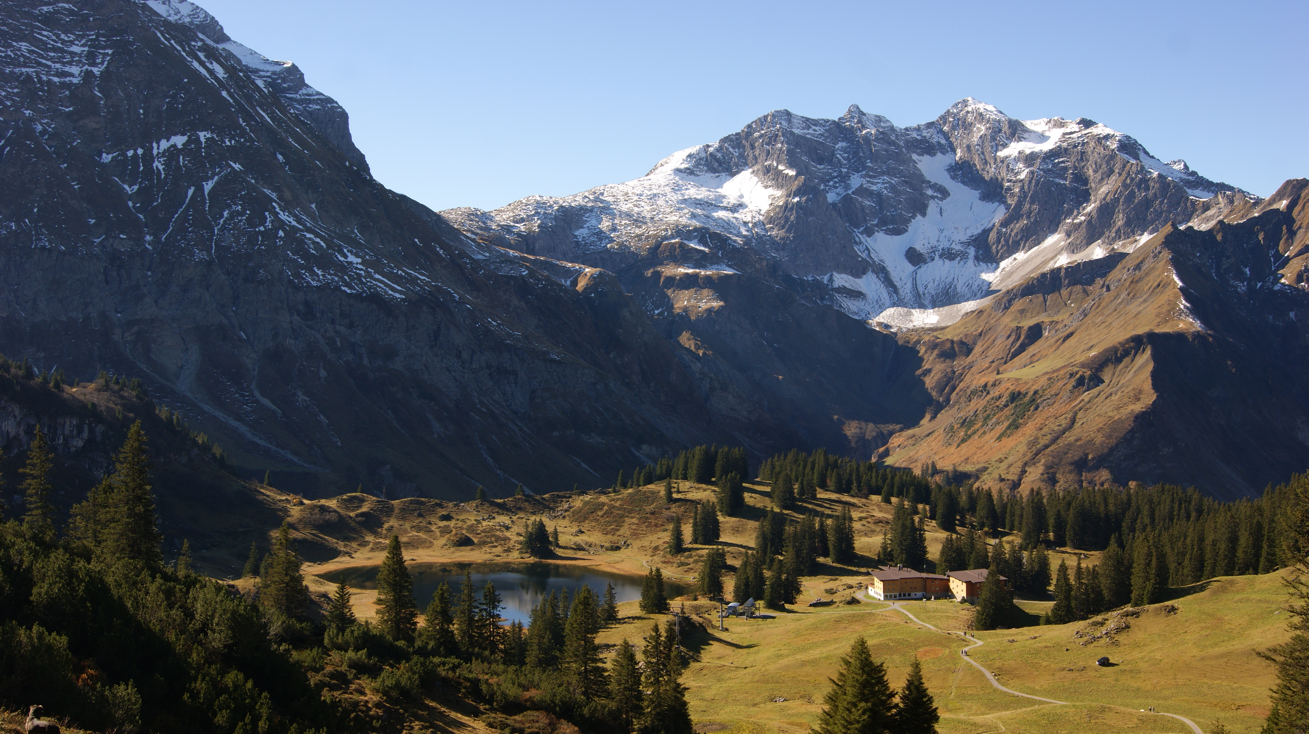 Koerbersee in the municipality of Schroecken in Vorarlberg, Austria. In the background the "Butzenspitze" (2547 masl) and the "Braunarlenspitze" (2649 masl). In the center of the picture at the Körbersee the chairlift to the falcon head ("Falkenspitze") and on the right the Hotel Koerbersee.